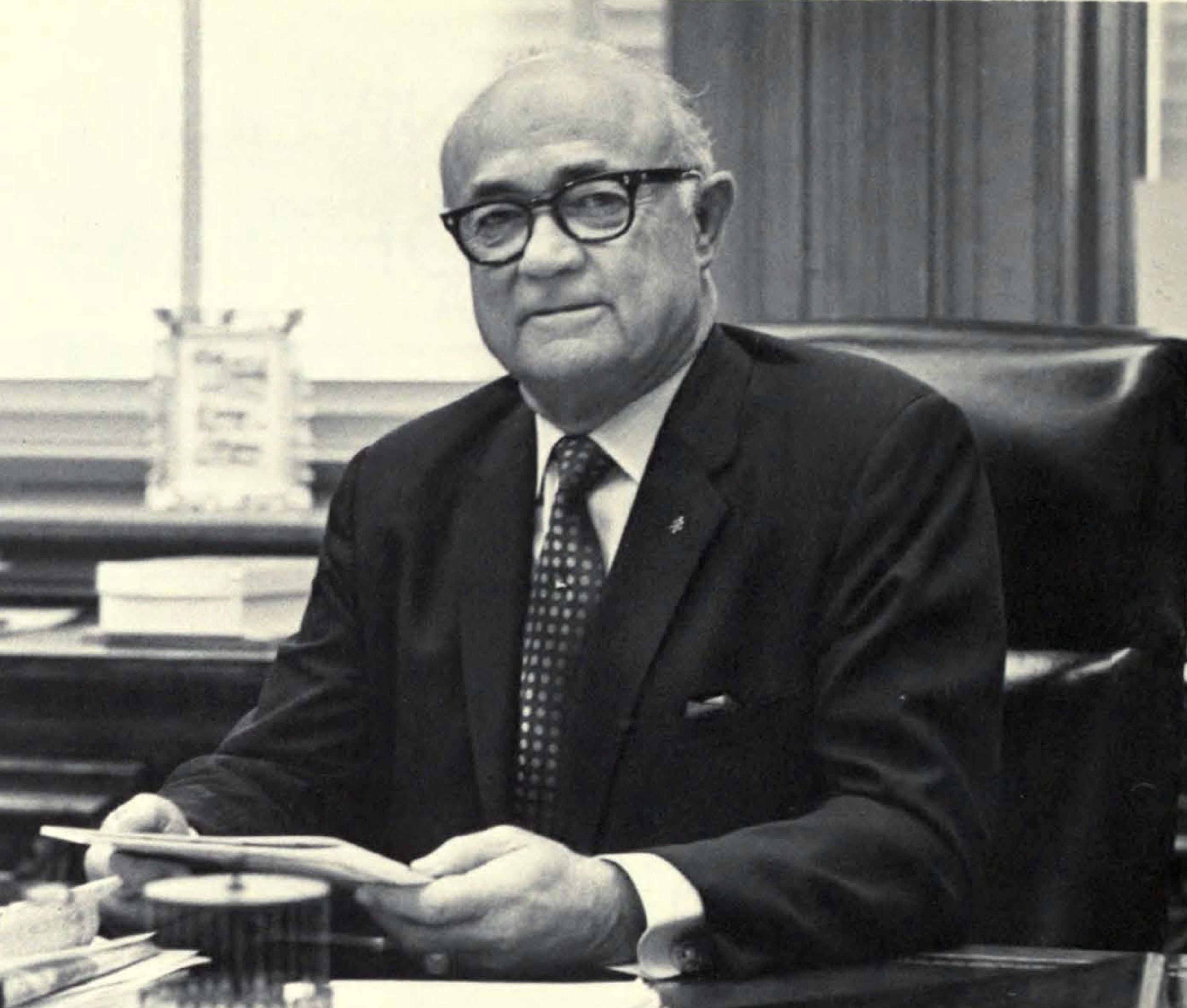 Governor Preston Smith of Texas